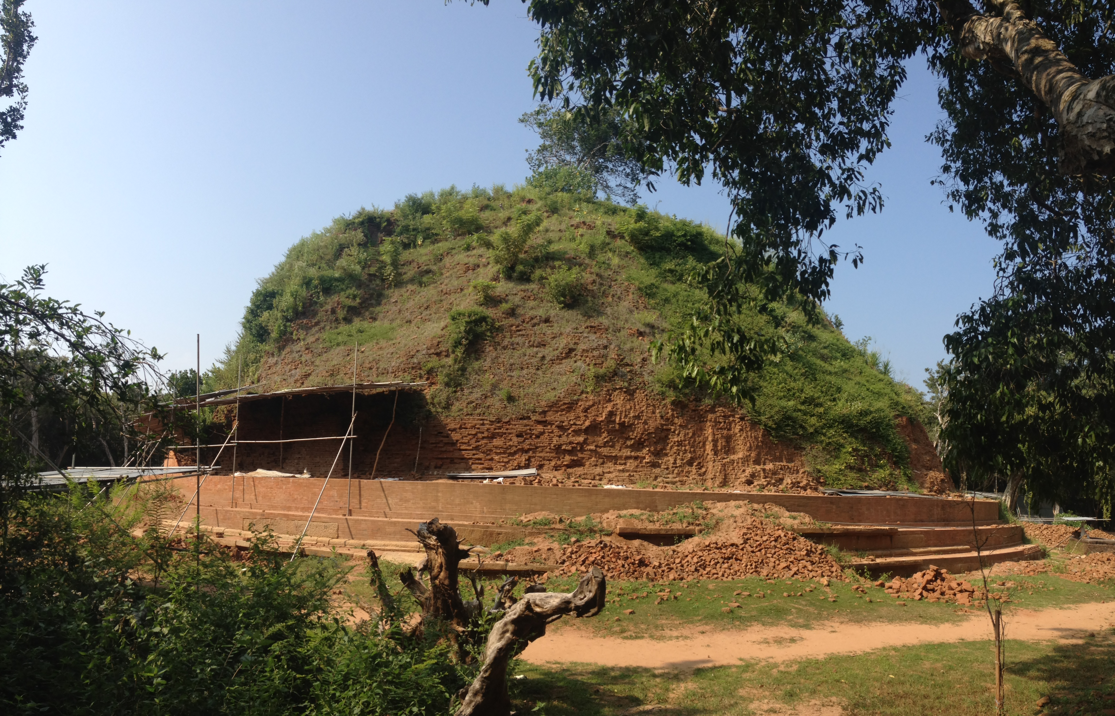 Neelagiriseya is an ancient Stupa situated in the Lahugala Kitulana National Park of the Ampara District, Sri Lanka.